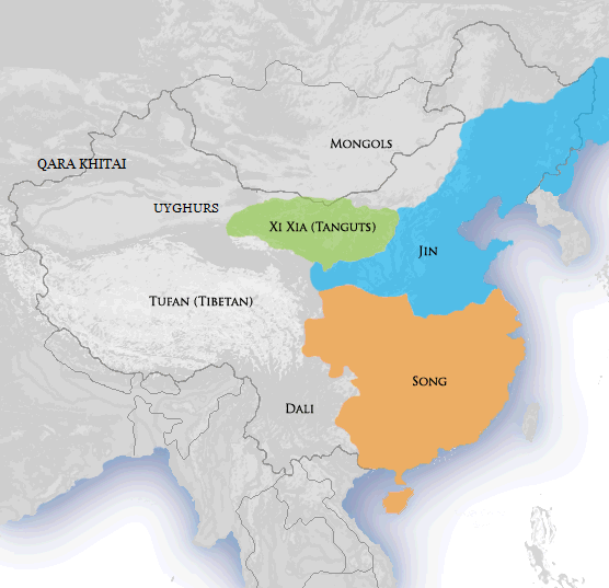 Song Dynasty 1141